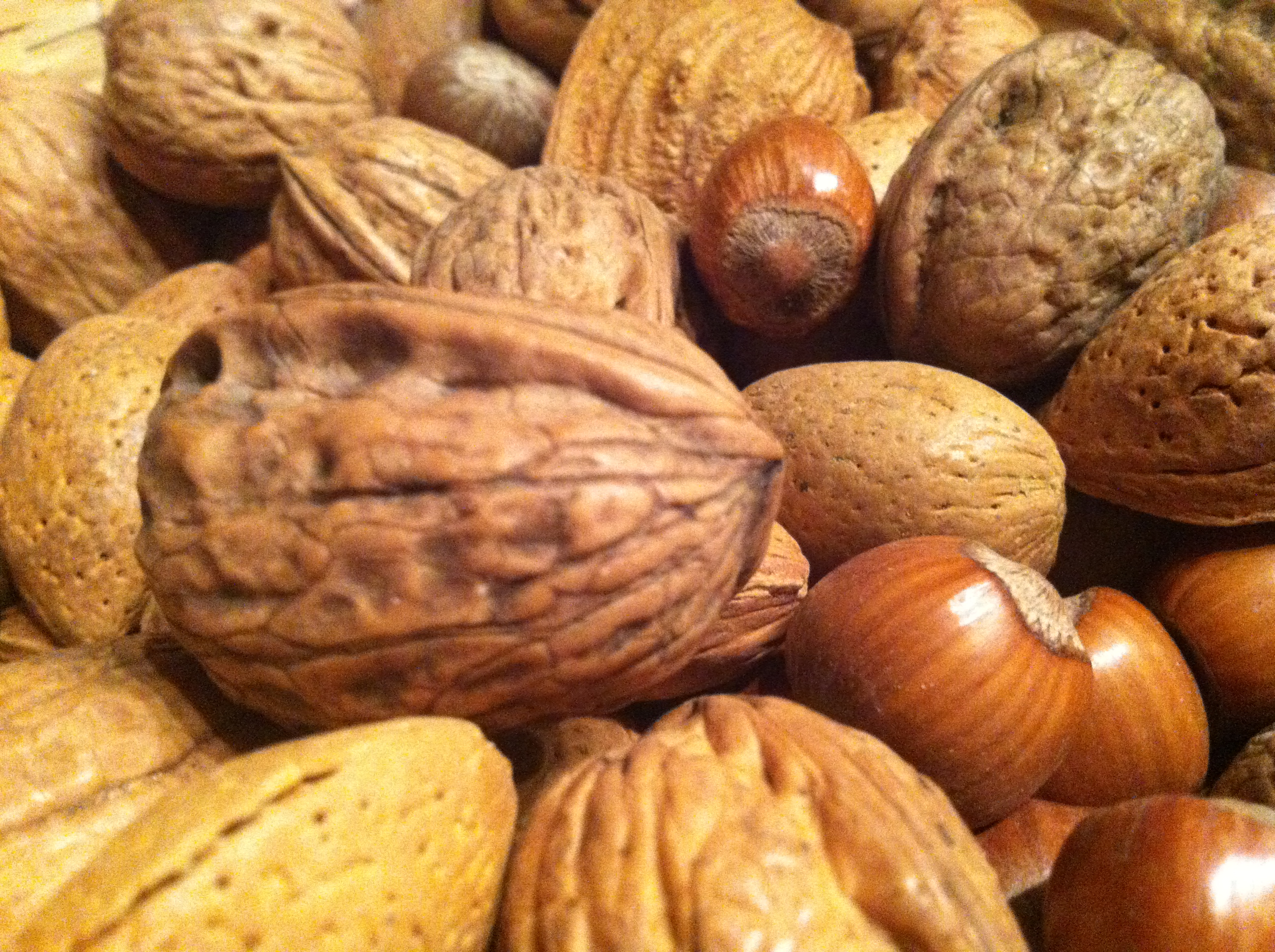 Various nuts mixed together.